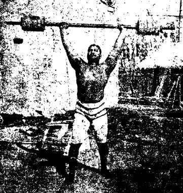 Bhabendra Mohan Saha lifting barbell.